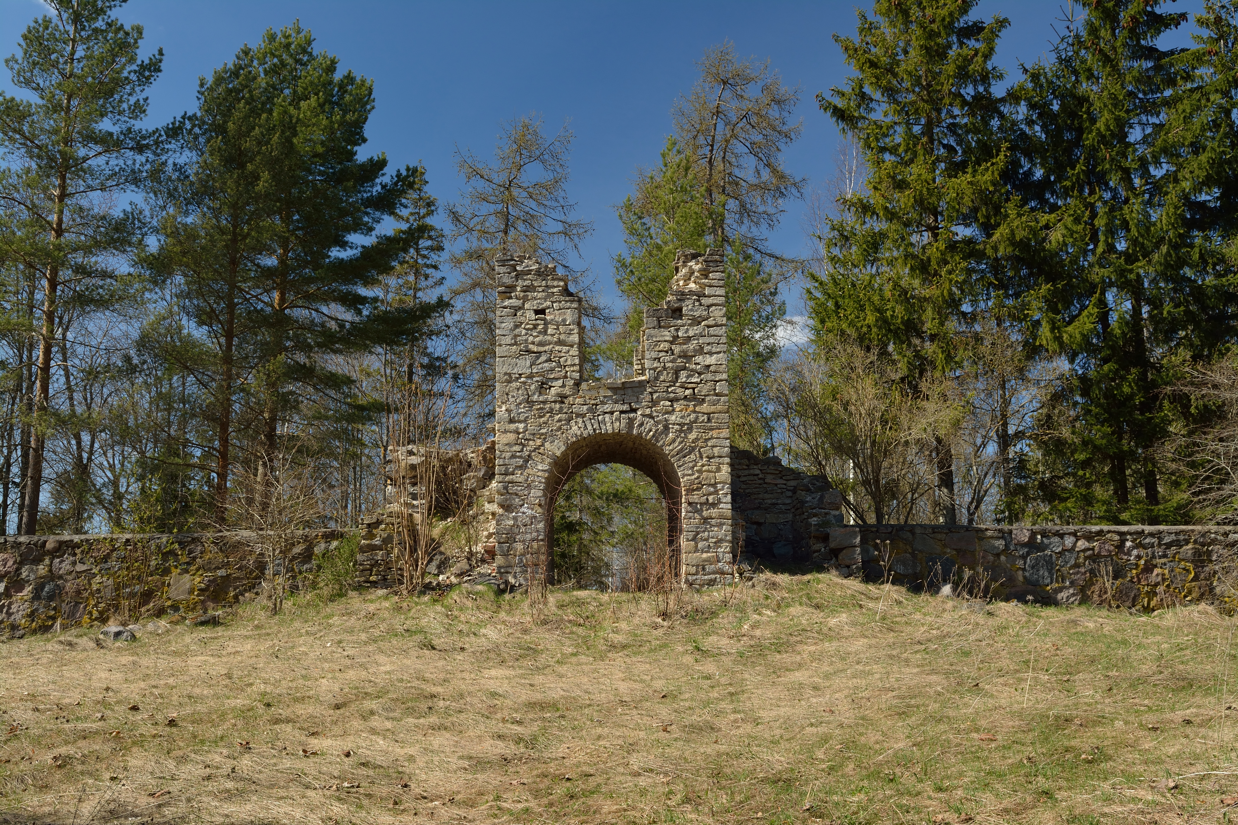 Ruins of Ingliste manor cemetery gate tower